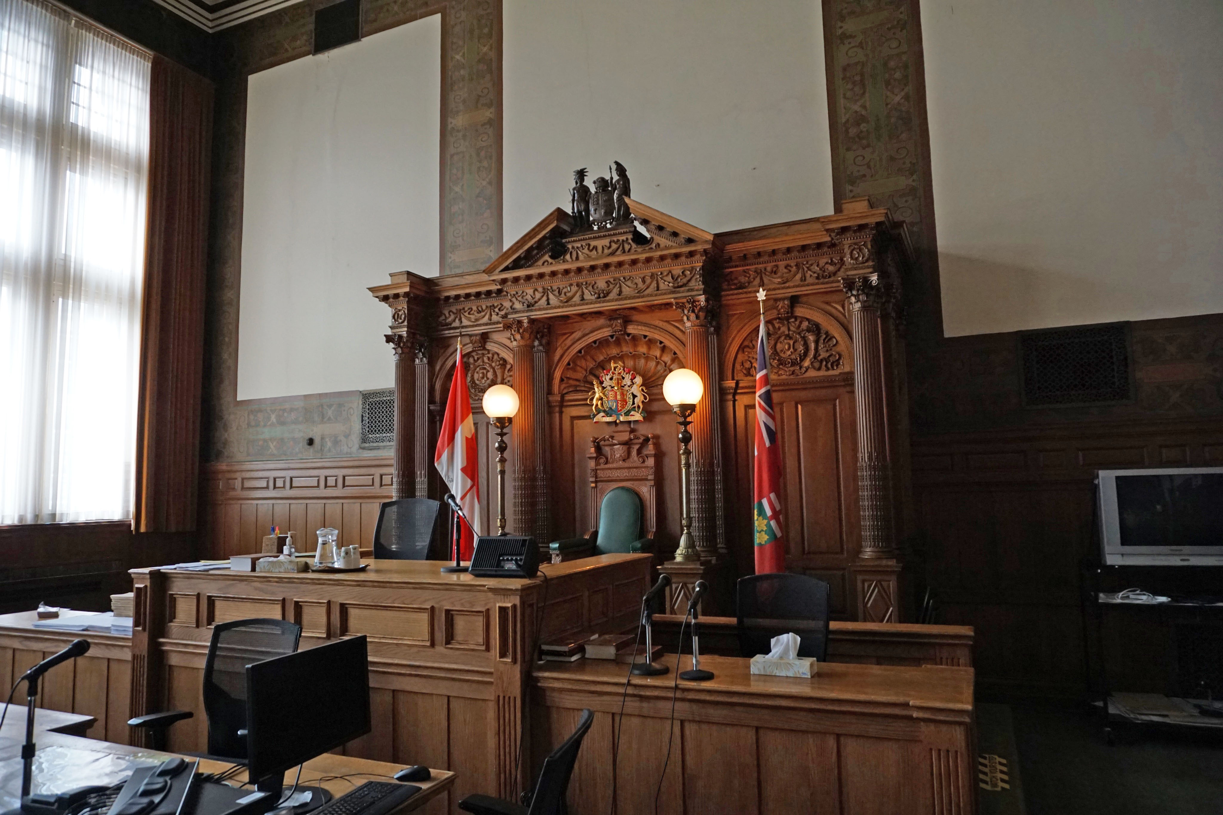 The council chamber in Old City Hall, Toronto.